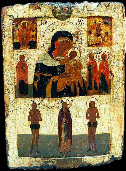 Icon of Virgin Mary Konevskaya